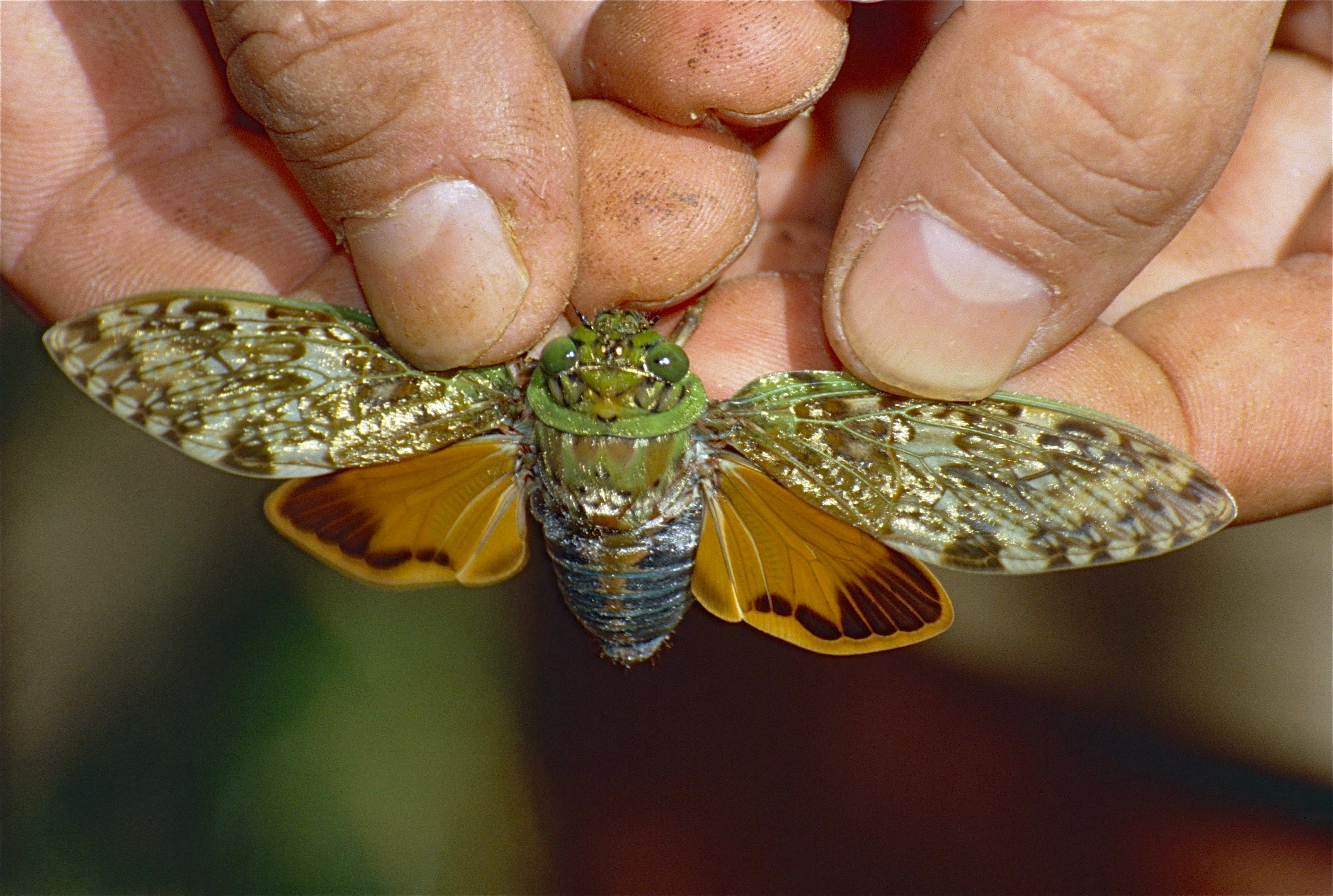 Mantadia Reserve, Perinet, MADAGASCAR Scanned Slide from 1998